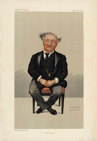 Caricature of English composer and organist John Stainer. Caption read "Oxford Music".